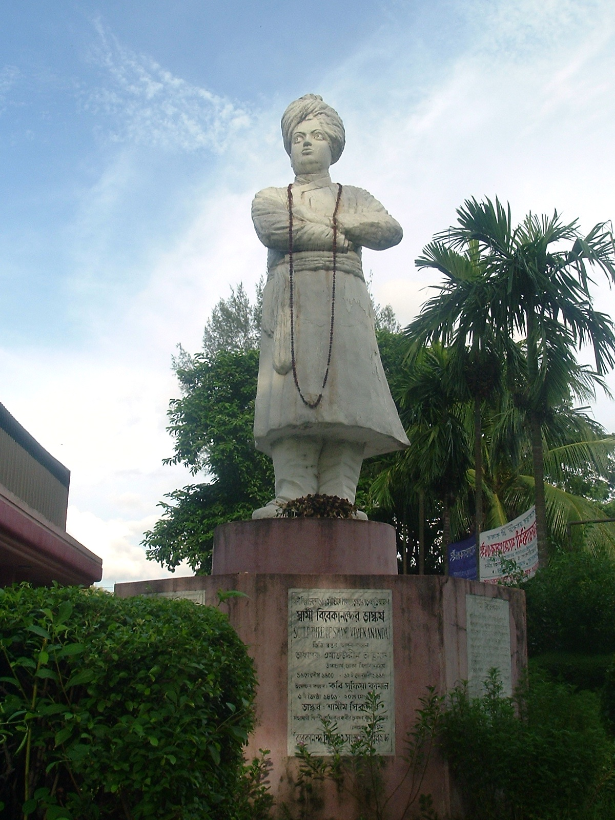 Sculpture of Swami Vivekananda, Jagannath Hall, Dhaka University, Dhaka.